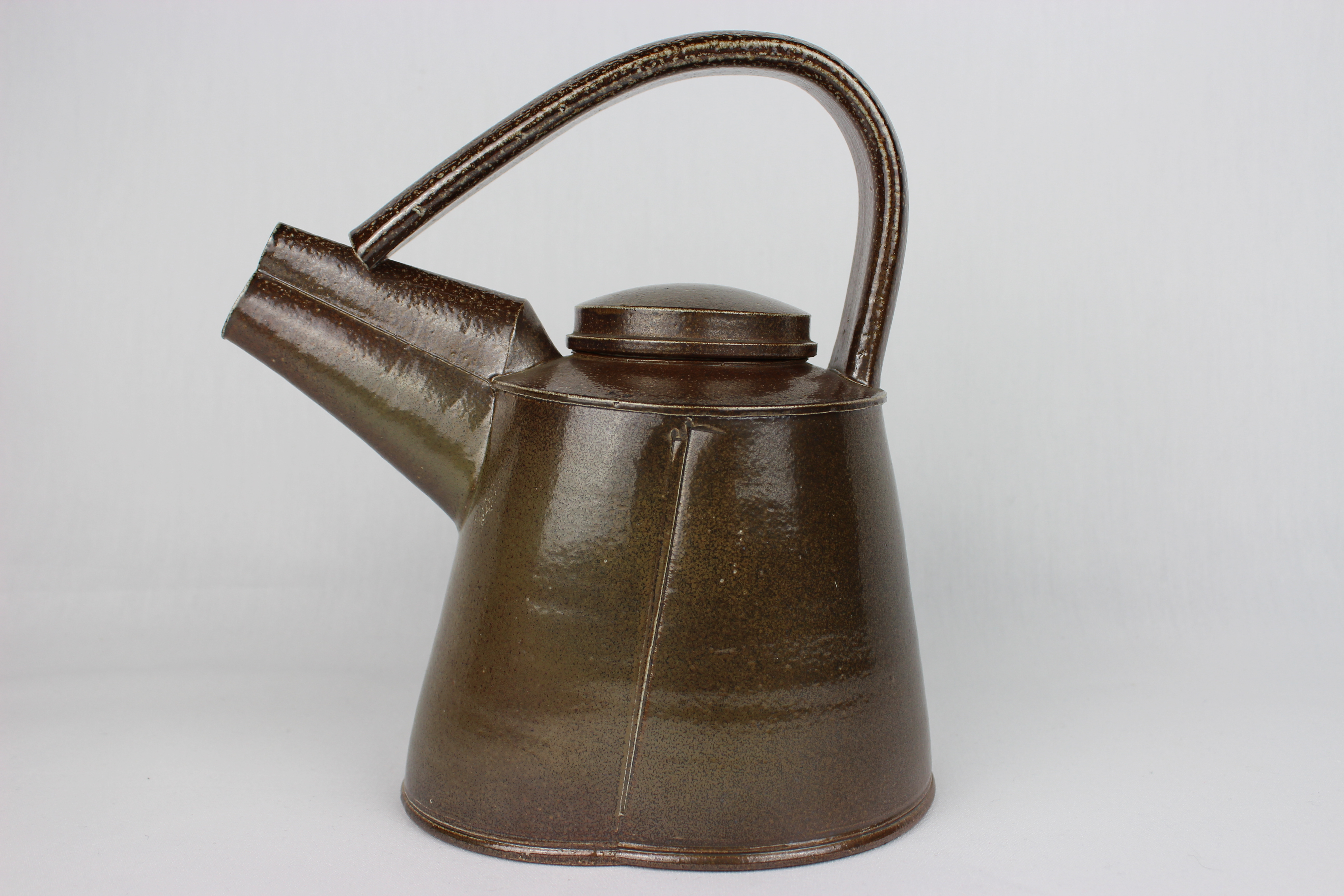 Salt glazed "oil can" style teapot. From the W.A. Ismay Studio Ceramics Collection at York Art Gallery